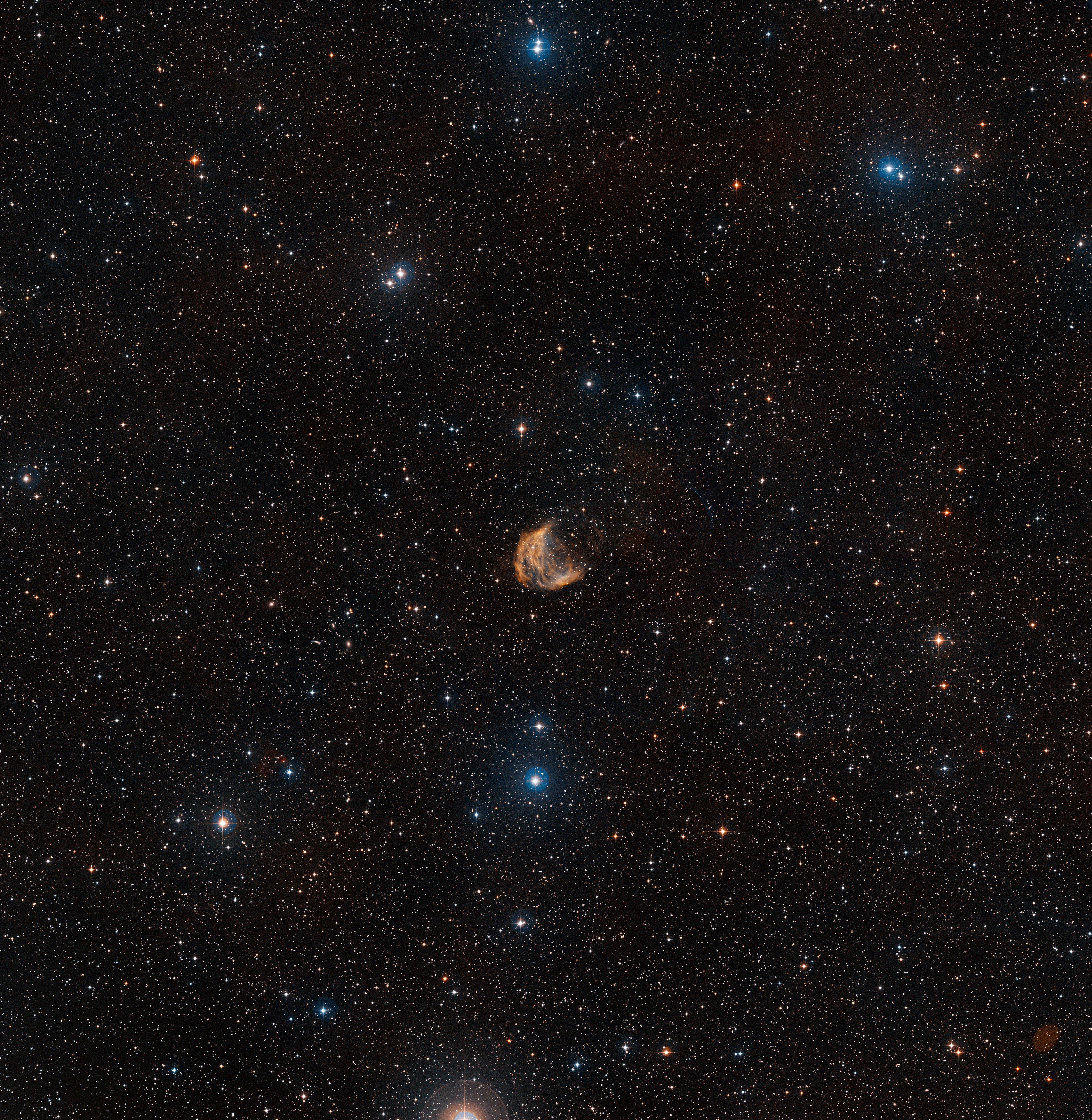 This wide-field view shows the sky around the large but faint planetary nebula known as the Medusa Nebula. The full extent of the object can be seen, as well as many faint stars and, far beyond them, numerous distant galaxies.This picture was created from images forming part of the Digitized Sky Survey 2.